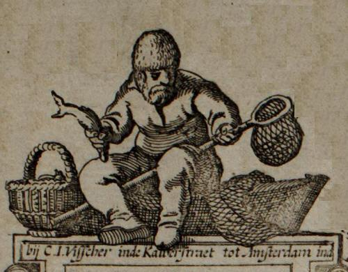 Detail of map of the Netherlands and surroundings from 1630, showing the "Fisher logo" of the Visscher family; mapmakers in Amsterdam.